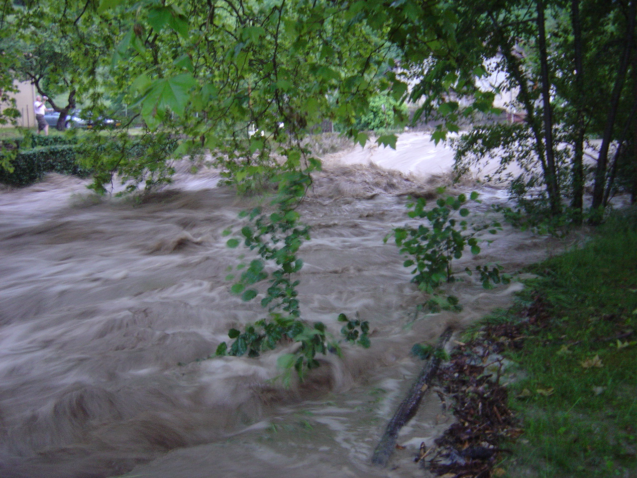 Hers flood on june 11. 2008 in belesta (Ariege, France)